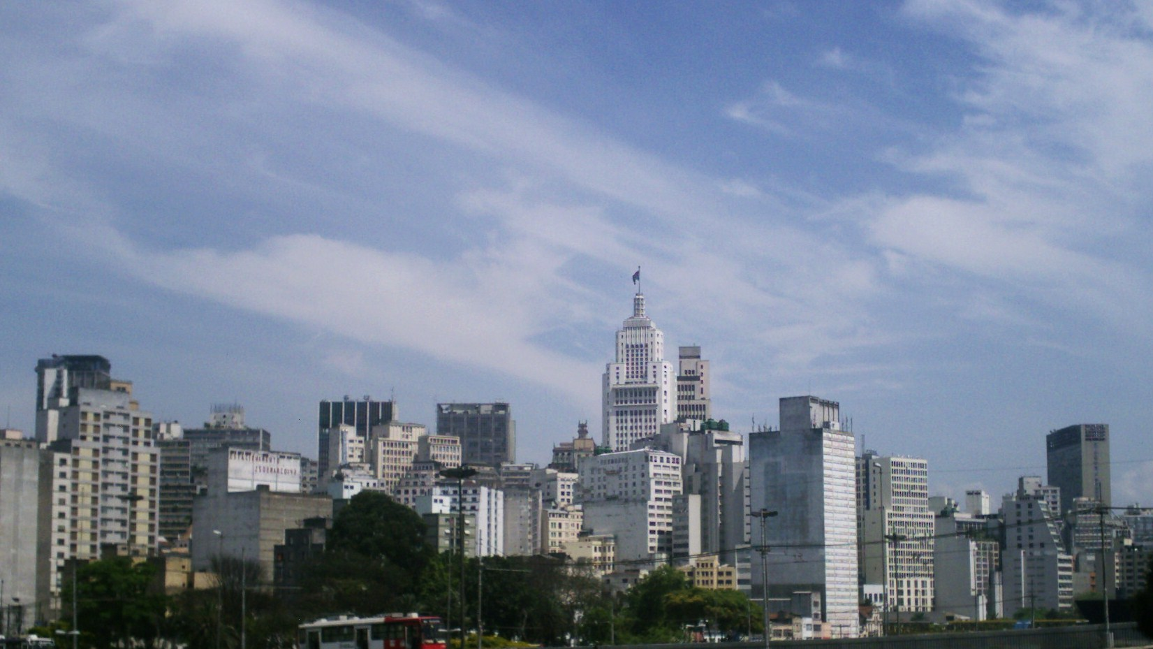 View of SP Downtown